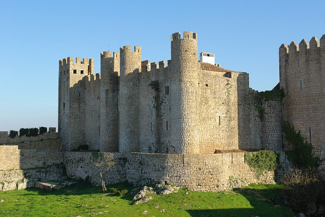 Photography by Osvaldo Gago.